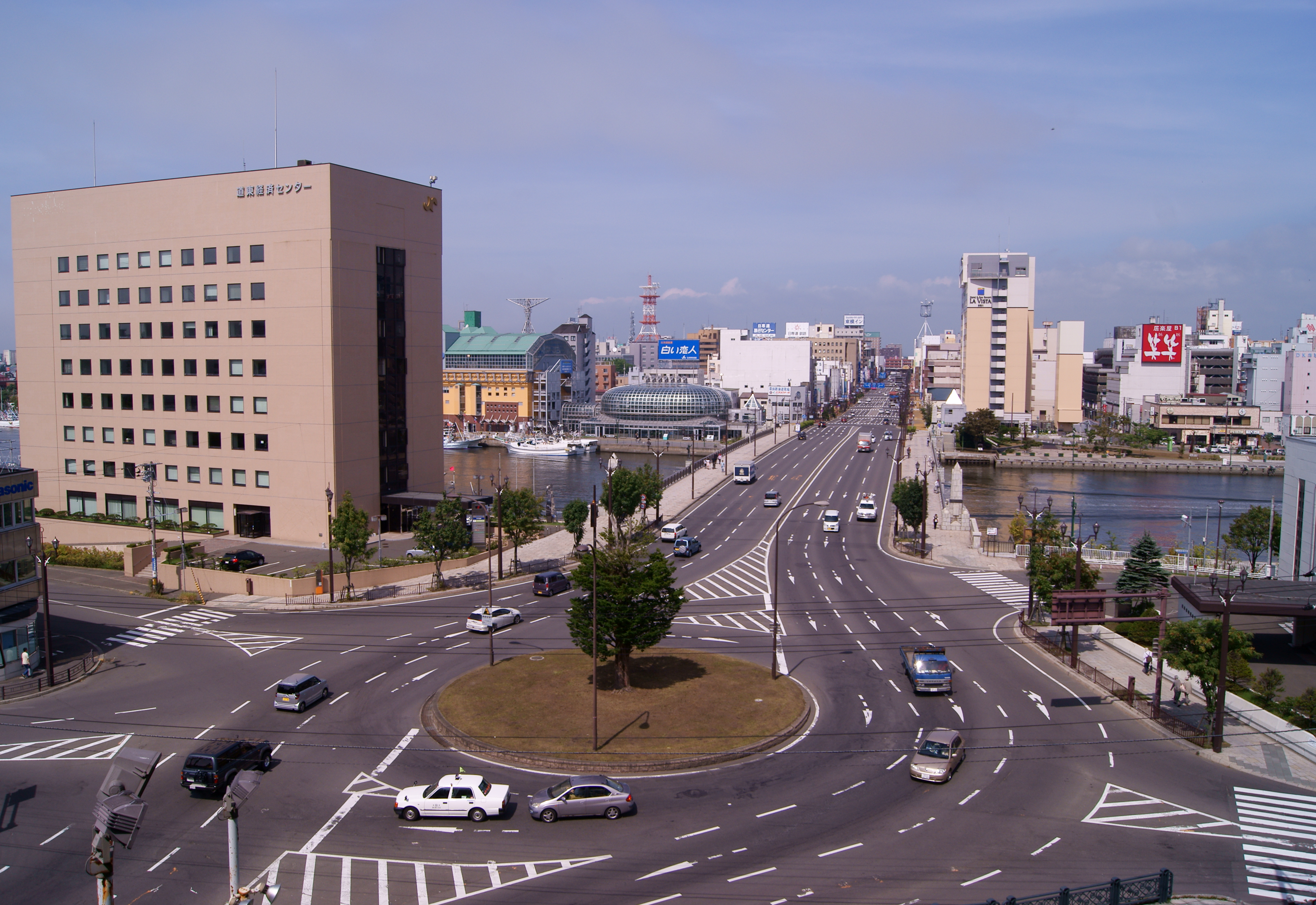 Nusamai Bridge seen from Nusamai Park in Kushiro City, Hokkaido, Japan